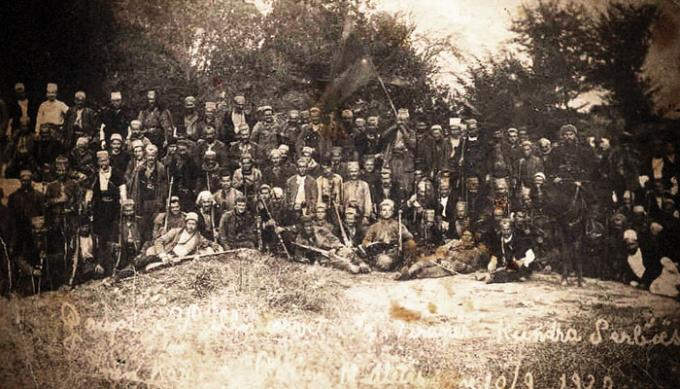 Albanian Volunteers fighting against Serbian army 1919-1920 Other information Old Albanian photo, depicting volunteer irregular units fighting against Serbian army remained in the outskirts of Albanian during 1919-1920